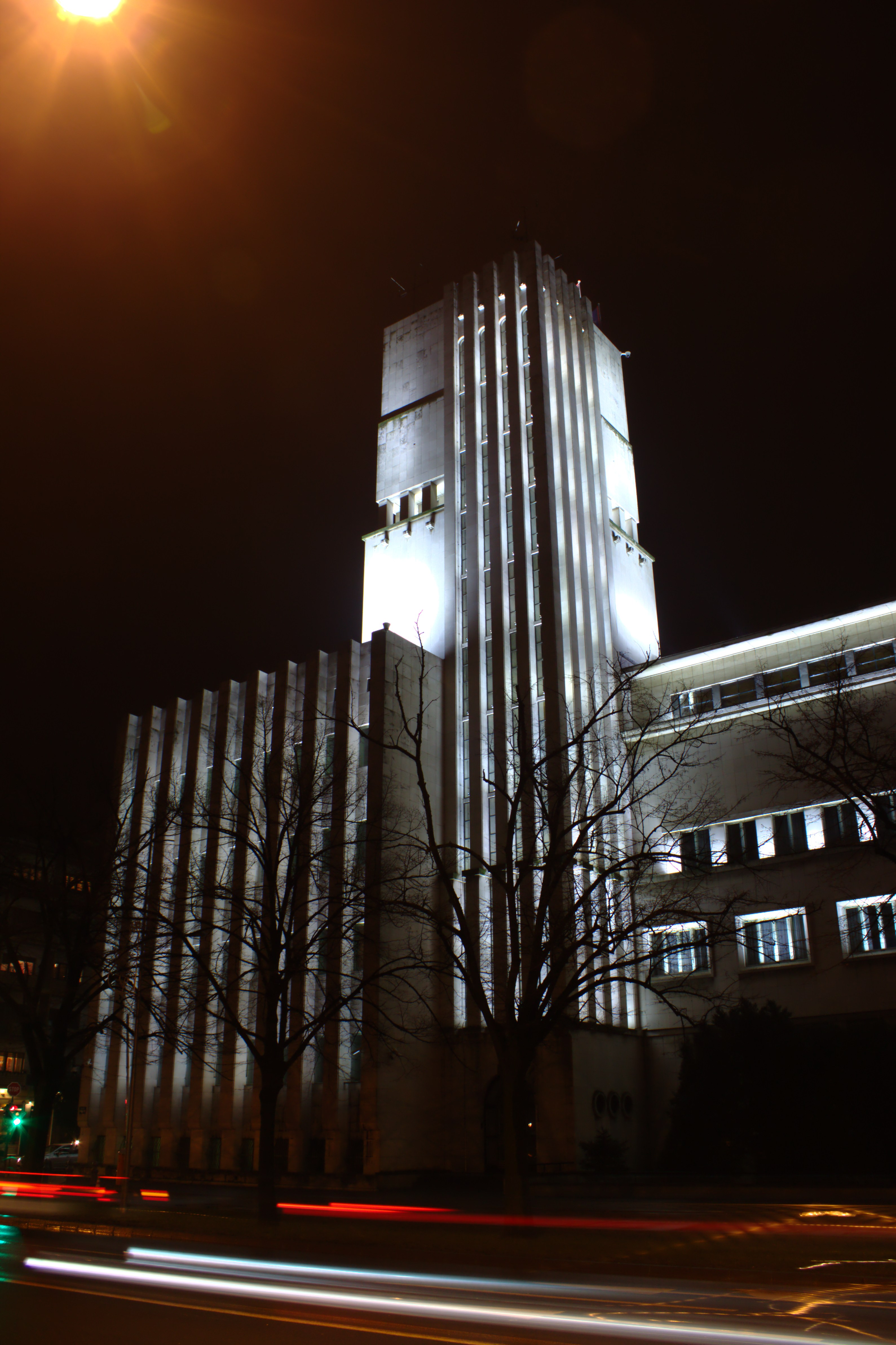 The building of the Government of Vojvodina in Novi Sad, Serbia